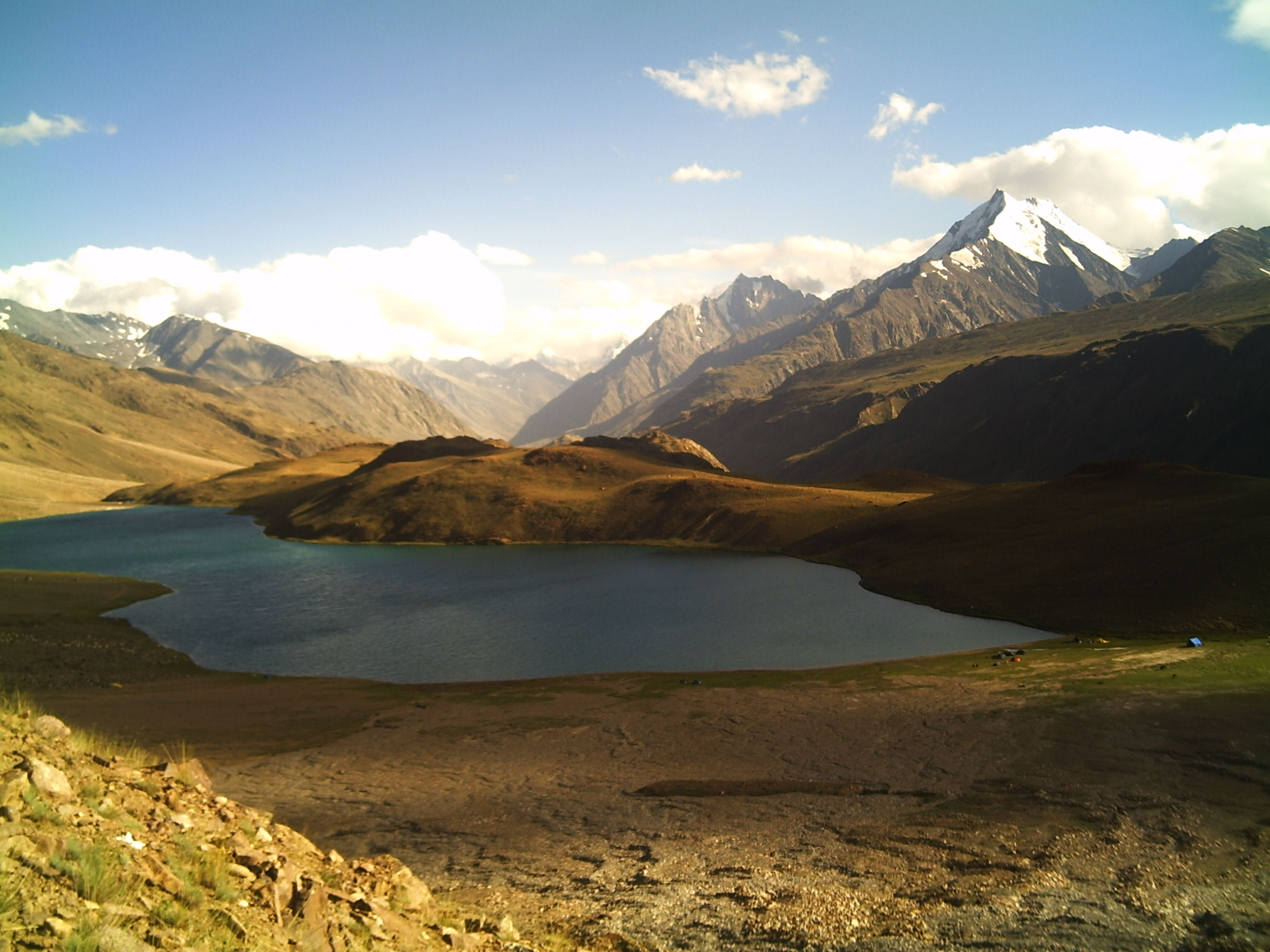 A view of Chandratal lake...